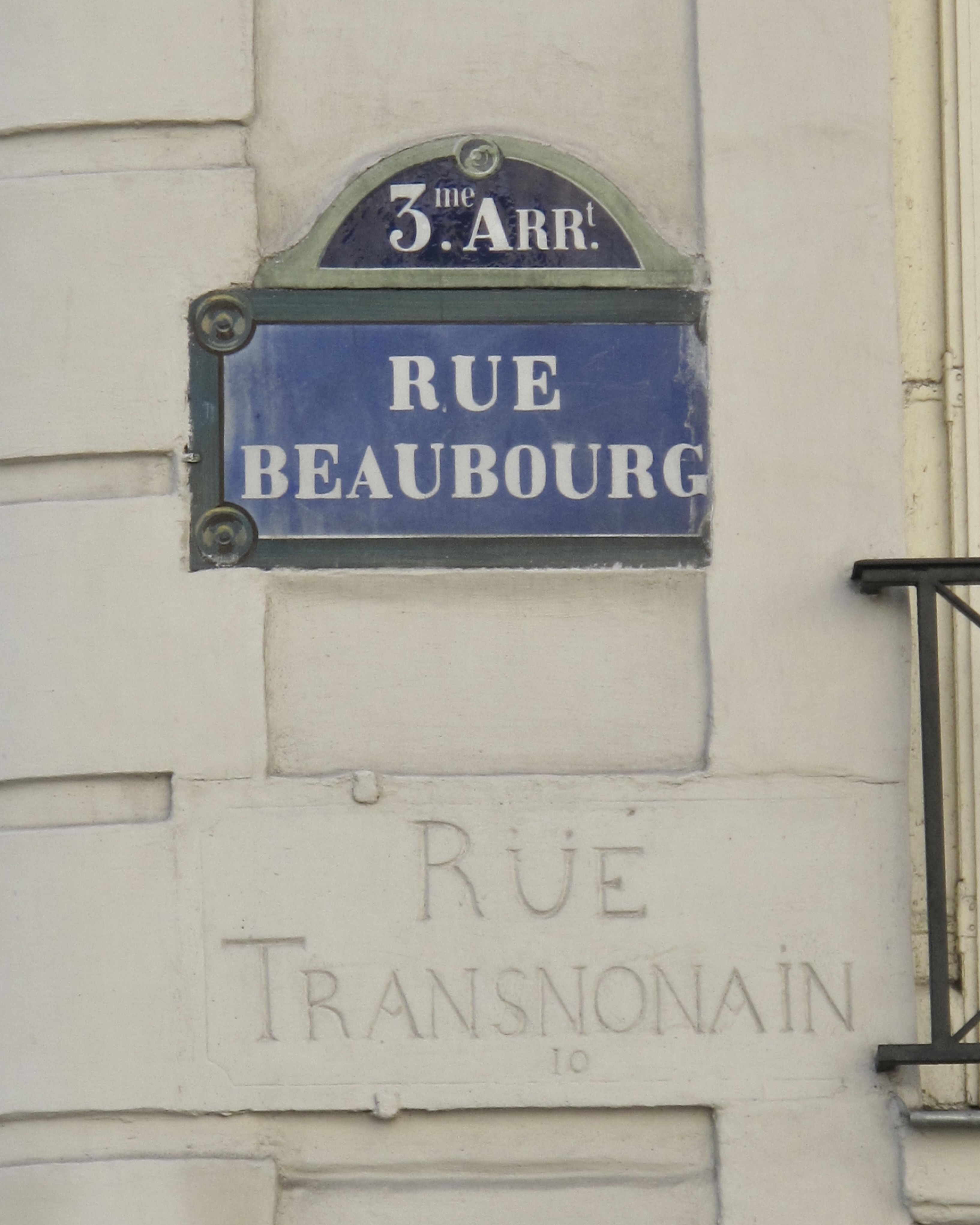 Rue Beaubourg (formerly rue Transnonain), Paris 3rd arr.